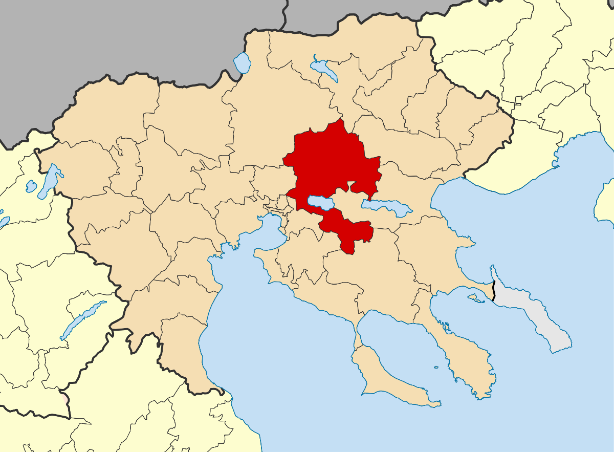 Locator map for Langadas municipality in Greek region Central Macedonia (2011)